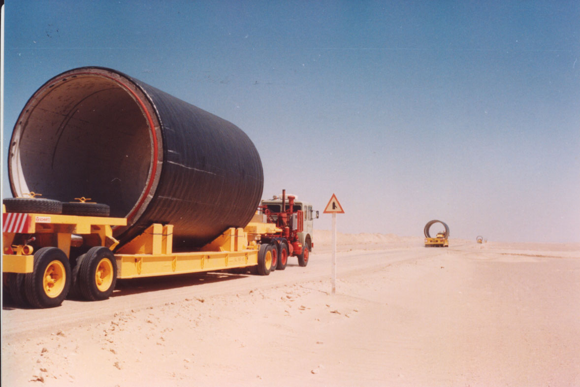 Costuction of the man made river Libya